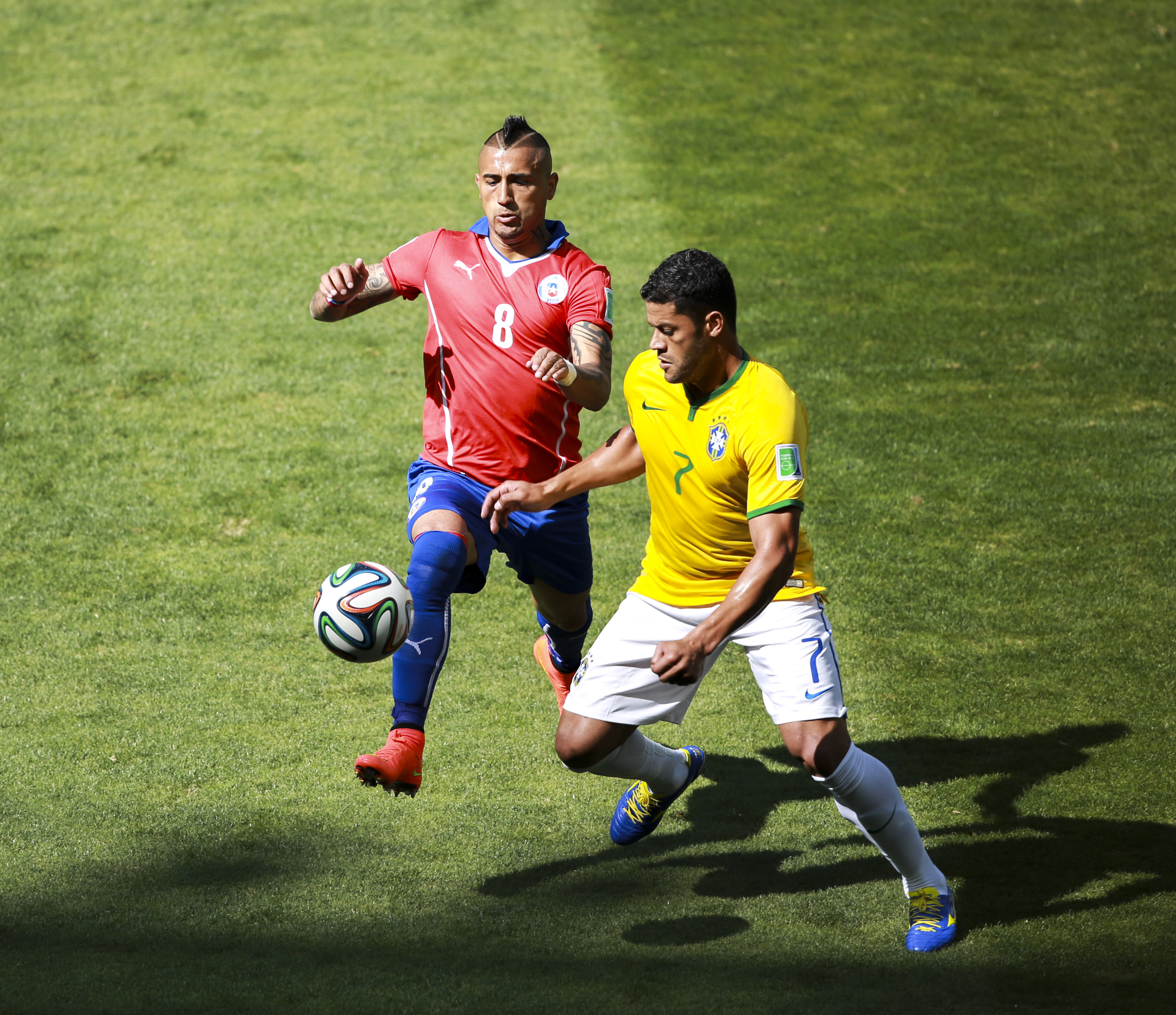 Brazil vs. Chile in Mineirão